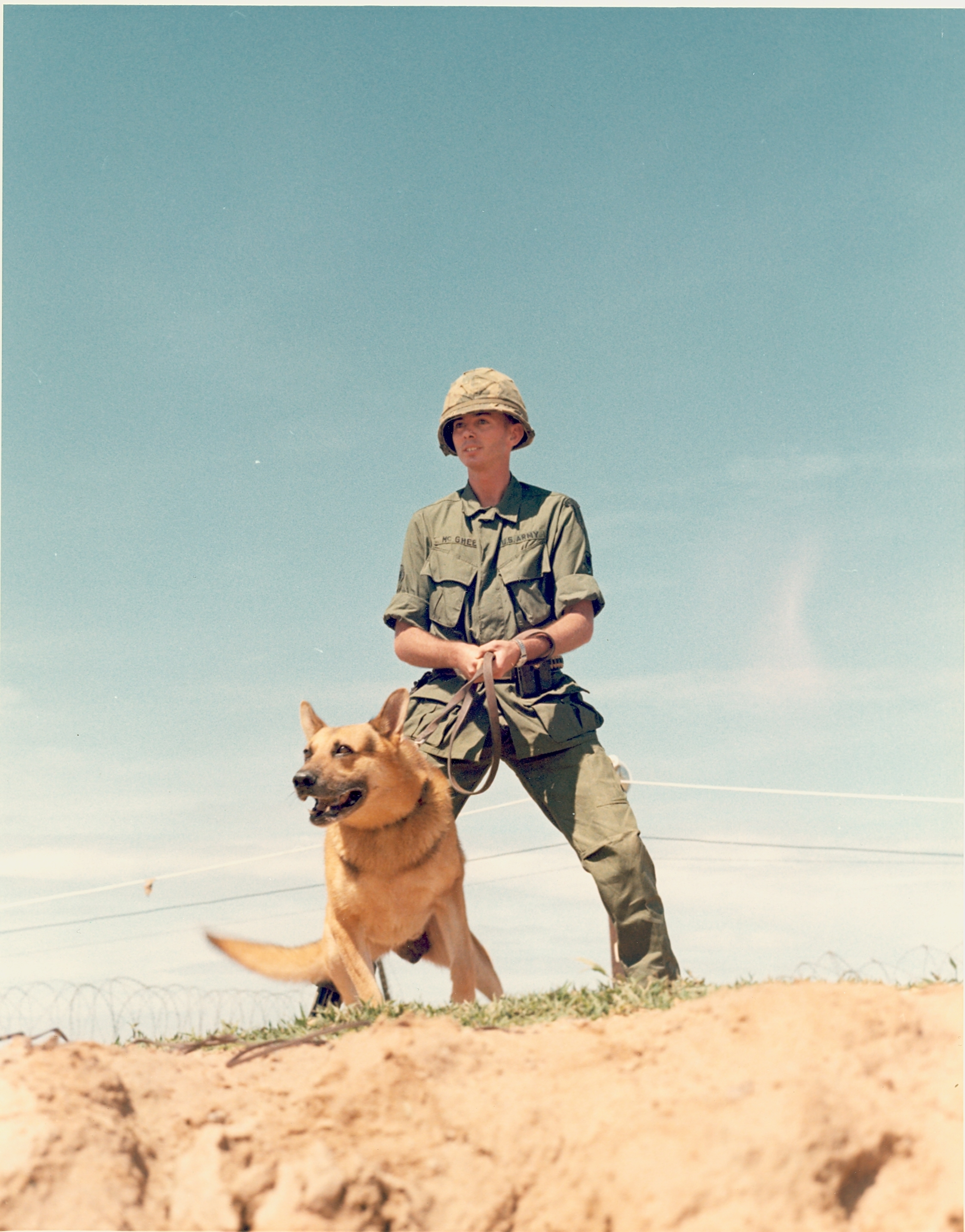 SP4 Teddy McGhee and "Duke" simulate an attack on patrol of the perimeter of Battery A, 6th Battalion, 56th Artillery, 97th Artillery Group at Quang Trang, VietnamOriginal caption: The Hawk Missile: SP4 Teddy McGhee (Perry, Arkansas), dog handler, puts "Duke" through a simulated attack while on patrol of the perimeter of Btry "A", 6th Bn, 56th Arty, 97th Arty Grp at Quang Trang, 16 km northeast of Saigon.